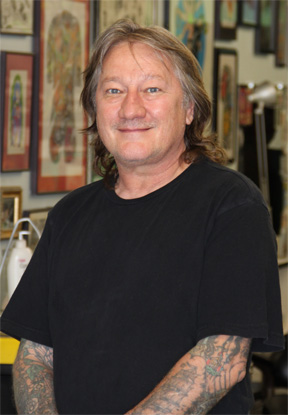 Greg James in front of Tattoos Deluxe